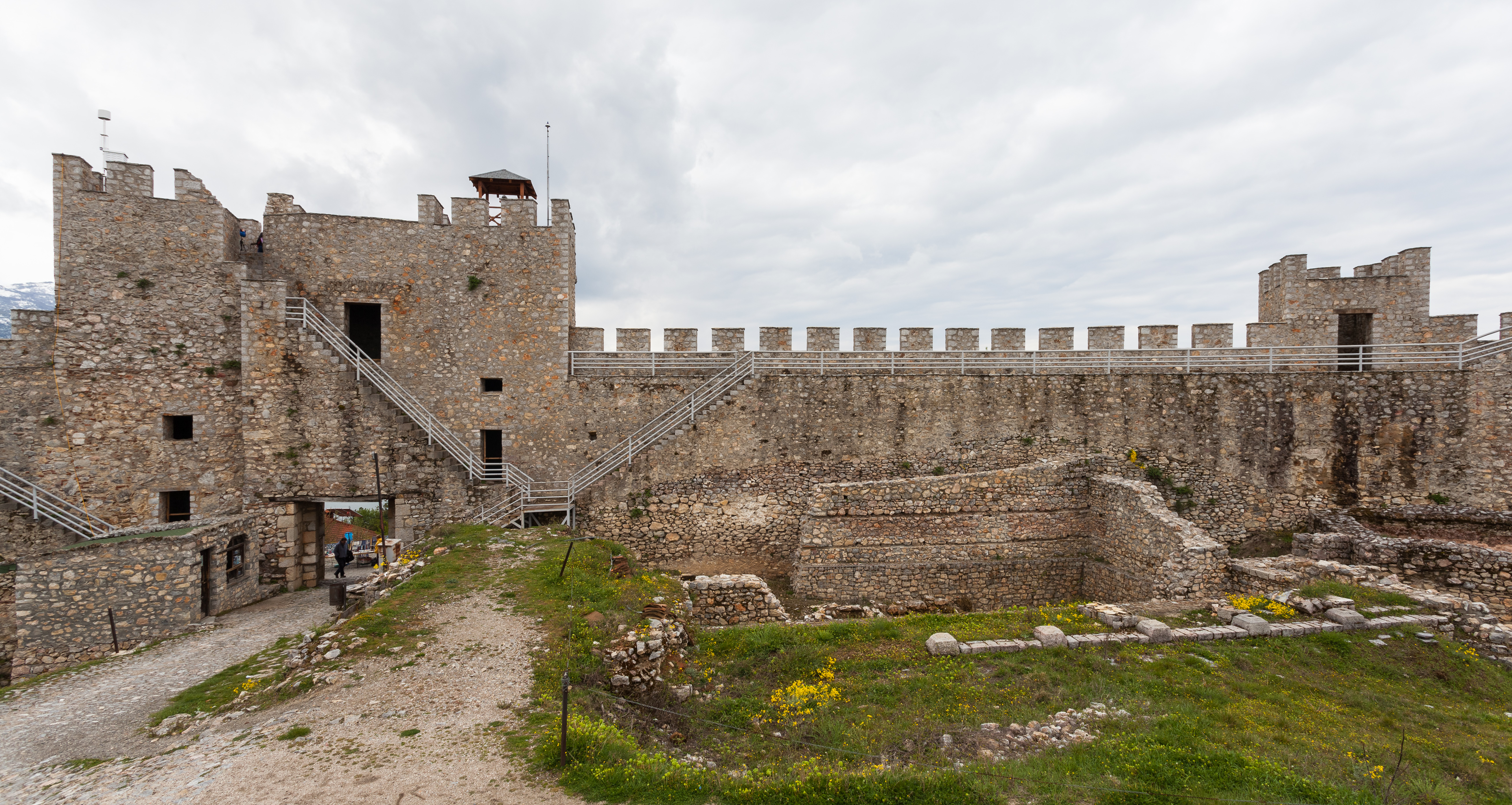 Samuil's Fortress, Ohrid, Macedonia